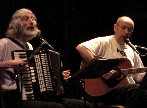 Hoed en de RandUnknown